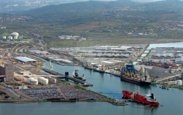 Port of Koper